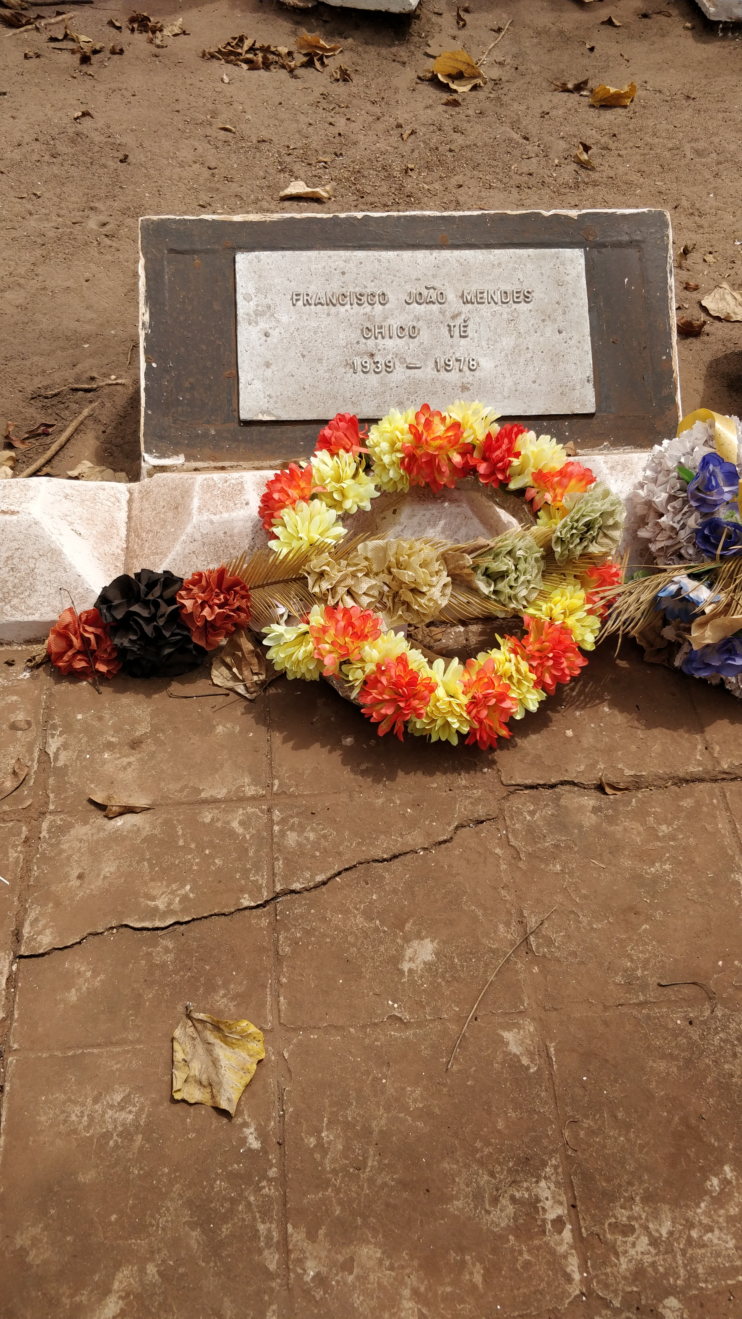 Monument for the Heroes of the Fatherland (Memorial aos Heróis da Pátria) in Bissau